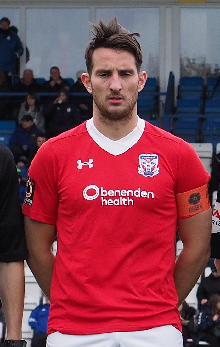 Joe Tait playing for York City against AFC Telford United at the New Bucks Head, Telford on 27 October 2018